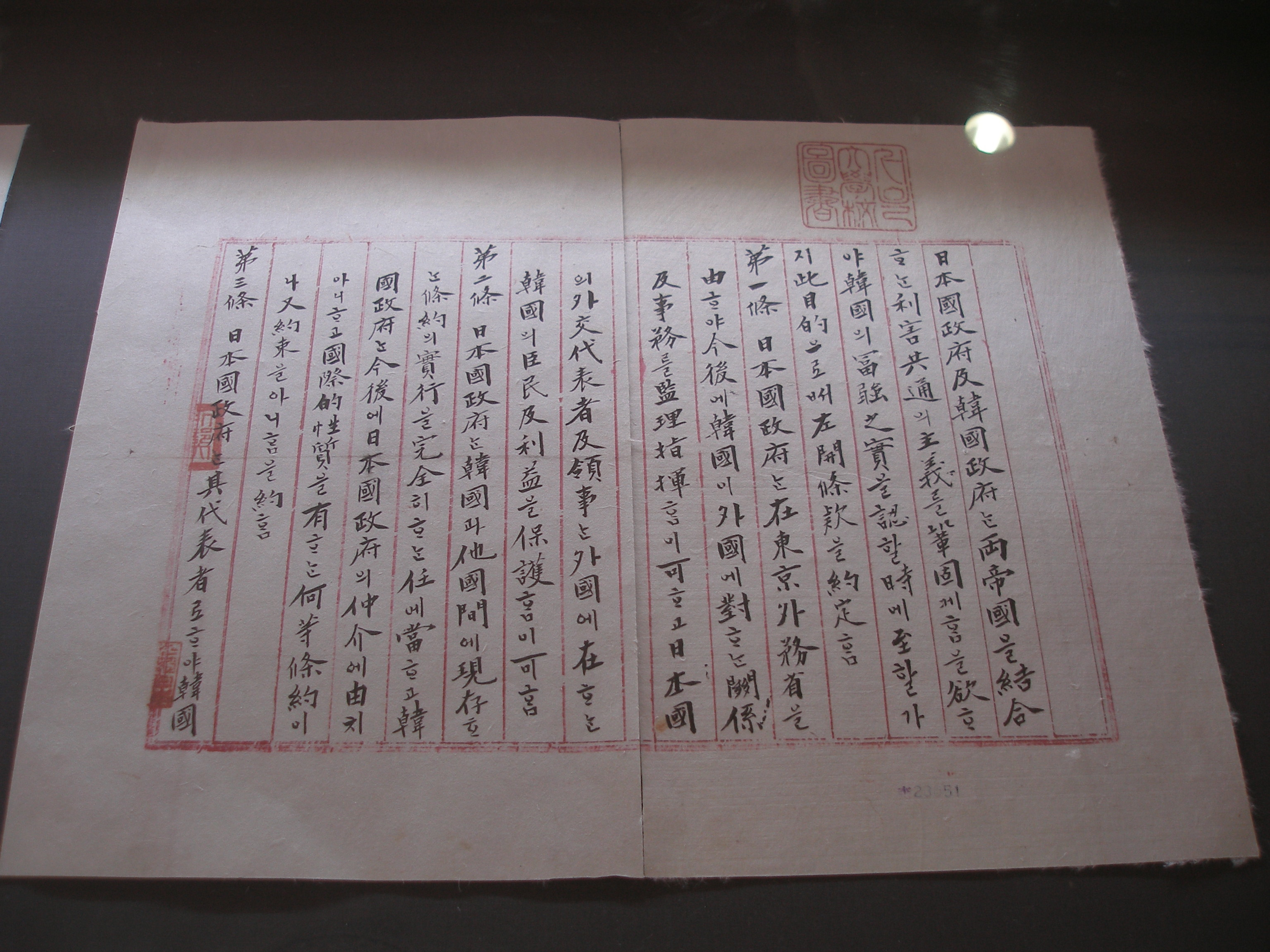 Outcommings of Wikipedia takes Jeongdong 위키백과:위키백과, 정동을 찍다에서 찍은 사진 Eulsa treaty, Korean version 1/3